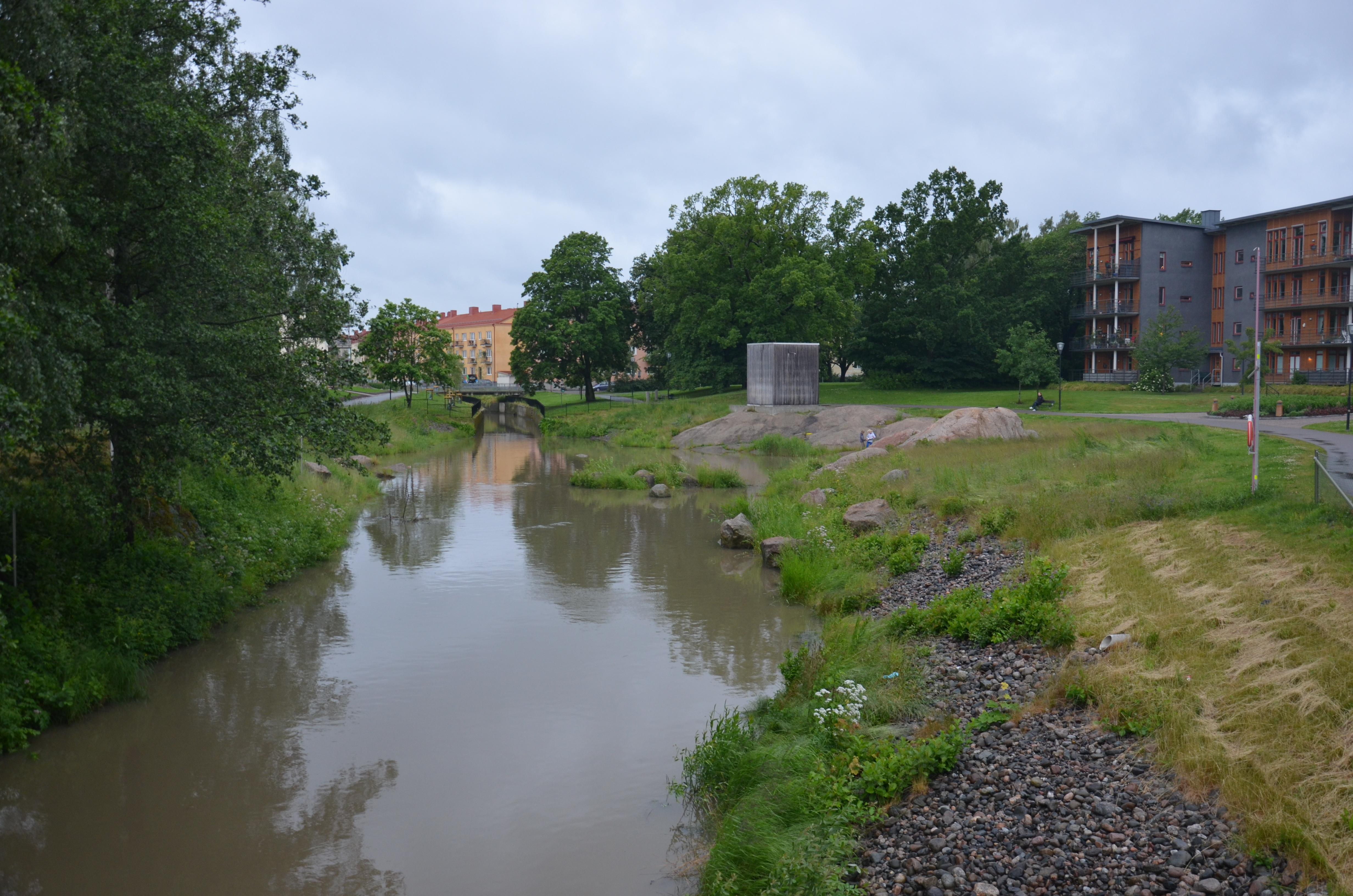 Lillån i Örebro, bilden tagen västerut från bron vid Fanjunkarvägen